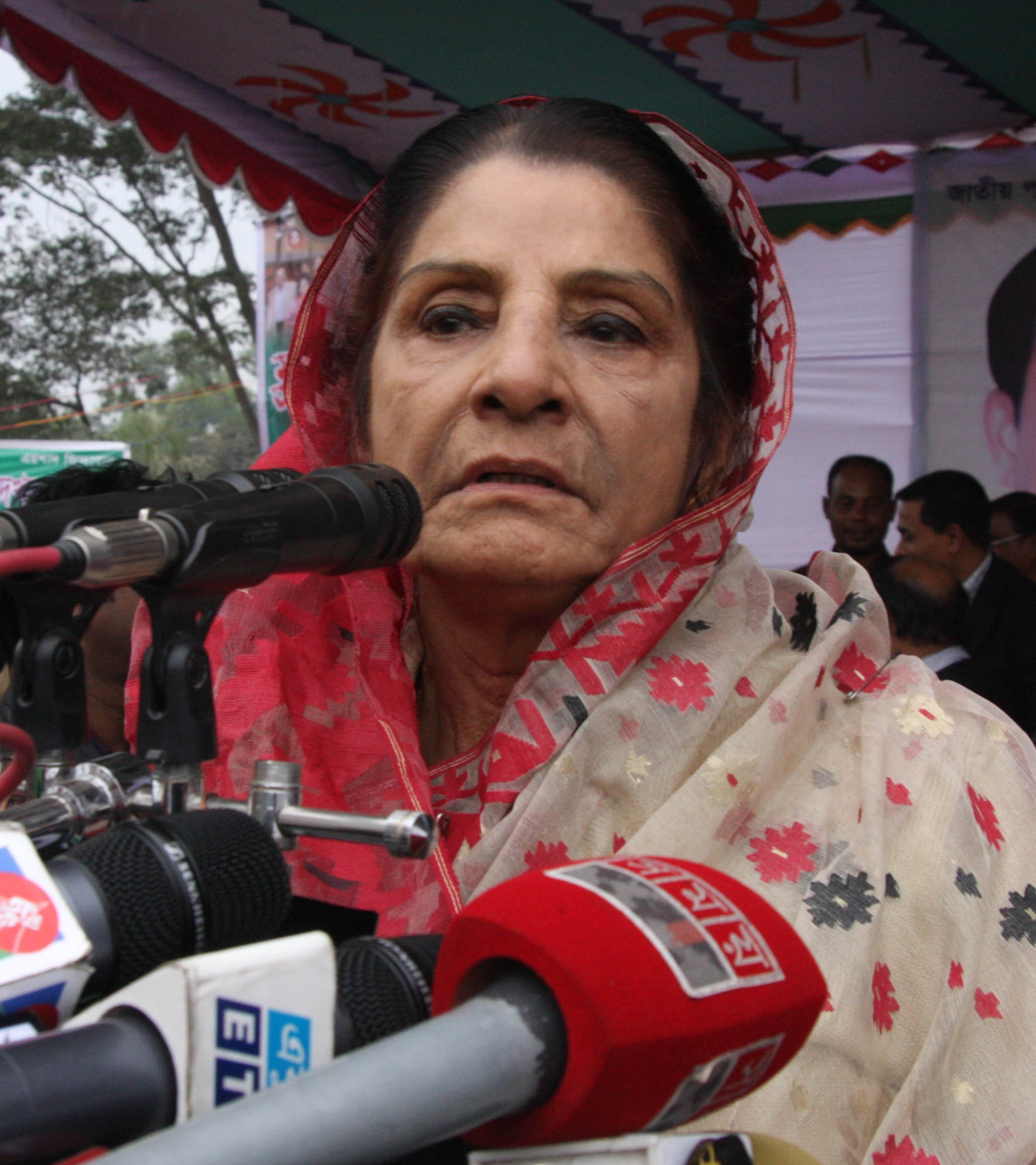 Rawshan Ershad, Jatiya Party